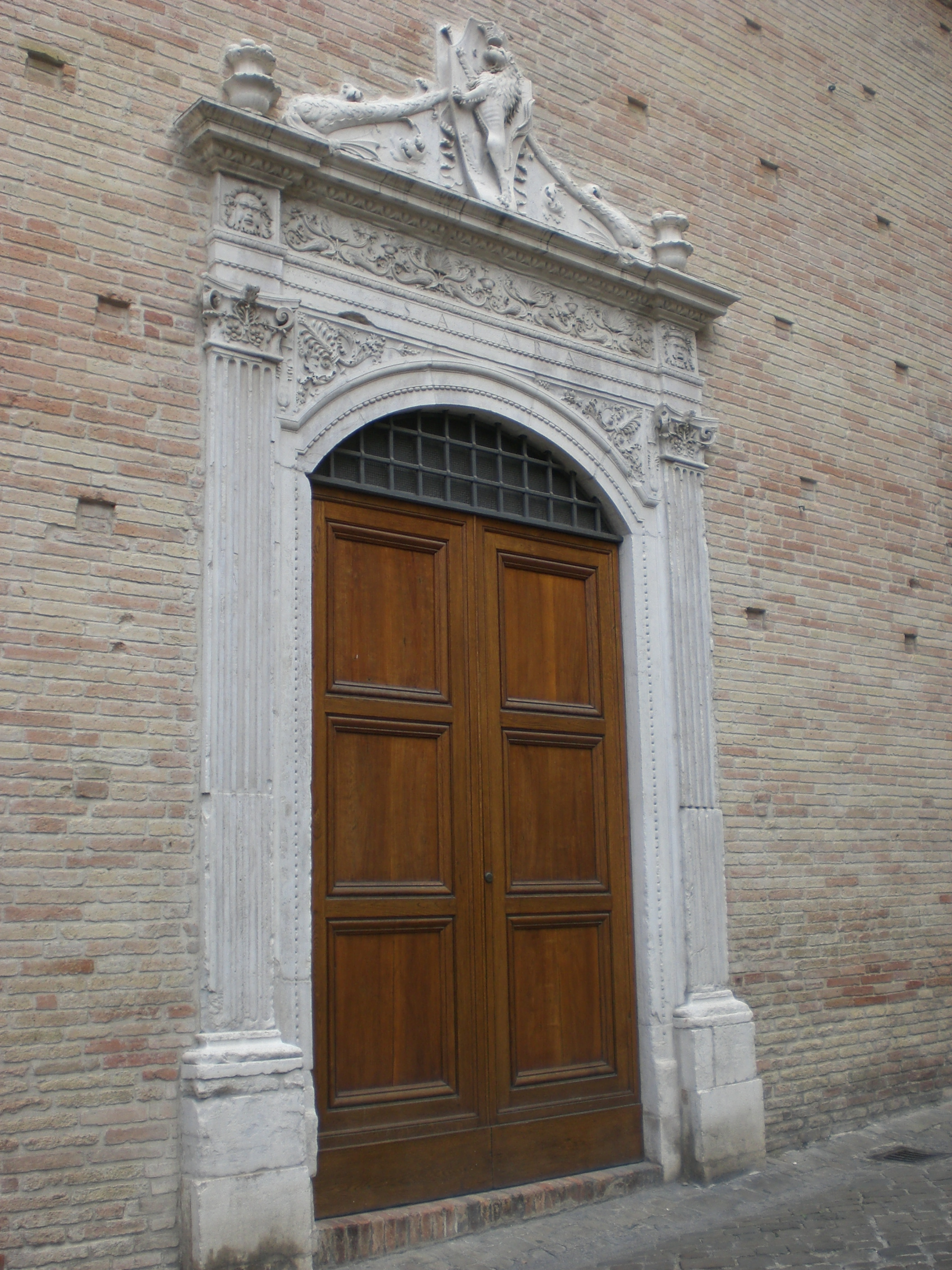 Jesi, Palace of Lords, XV Century